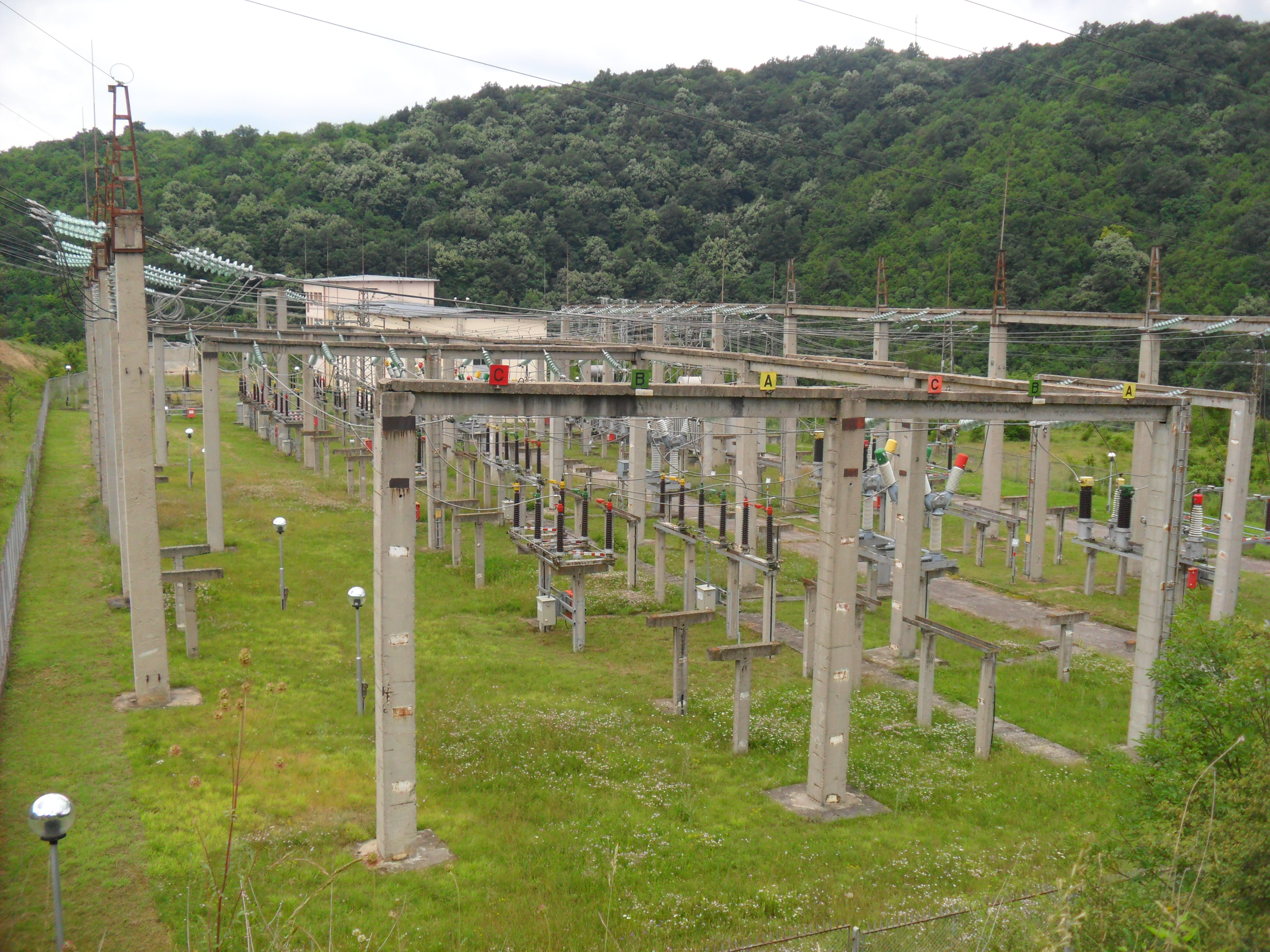 Electrical substation in Veliko Tarnovo, Bulgaria